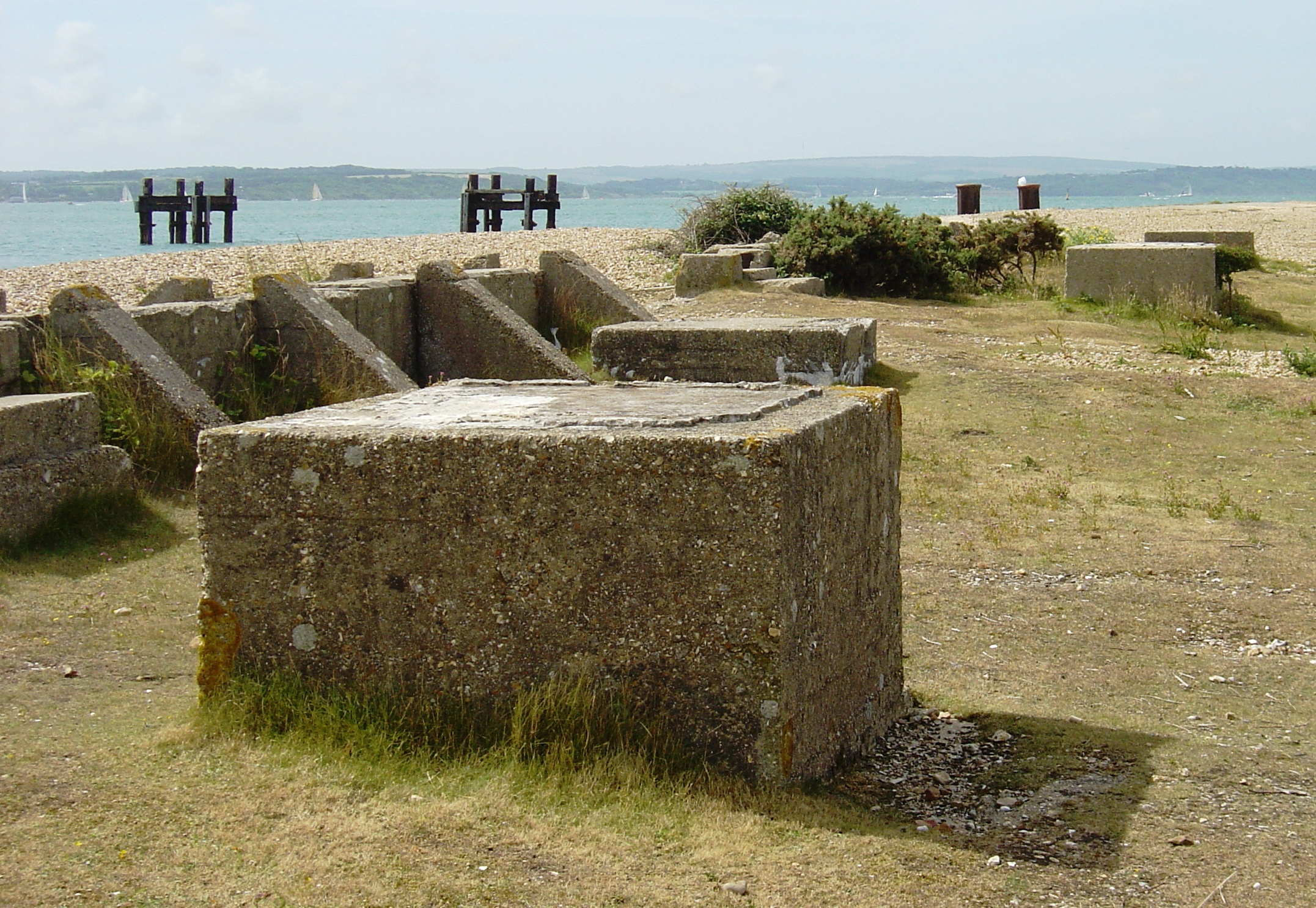 Lepe beach, Hampshire, UK showing remains of the preparations for D-Day. This site was involved in caisson manufacture, PLUTO and troop/equipment embarkation.This image shows pier supports, bollards and concrete structures associated with the caisson slipway.